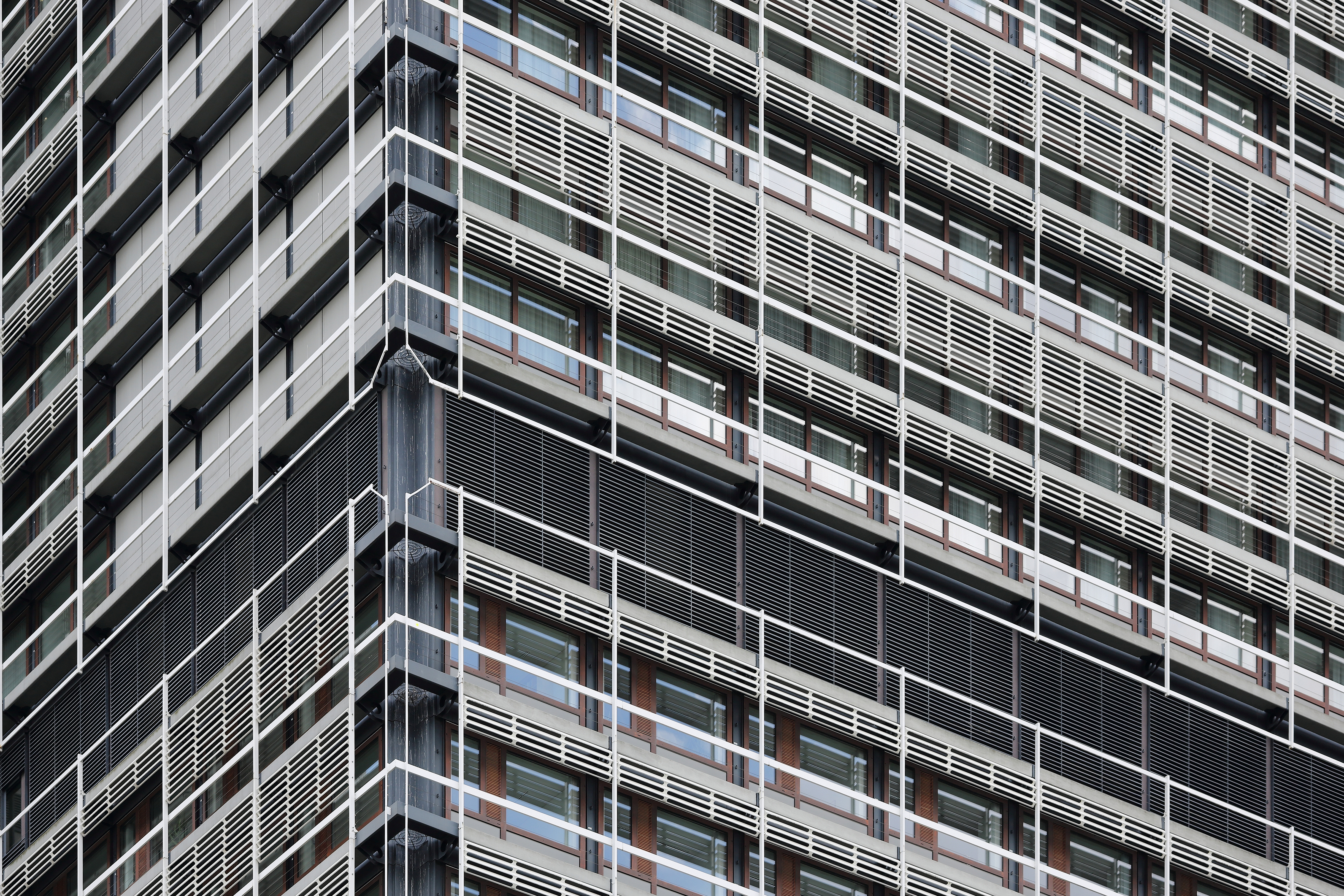 “Langer Eugen” in Bonn, North Rhine-Westphalia, a high-rise designed by Egon Eiermann in 1966 - detail of facade.